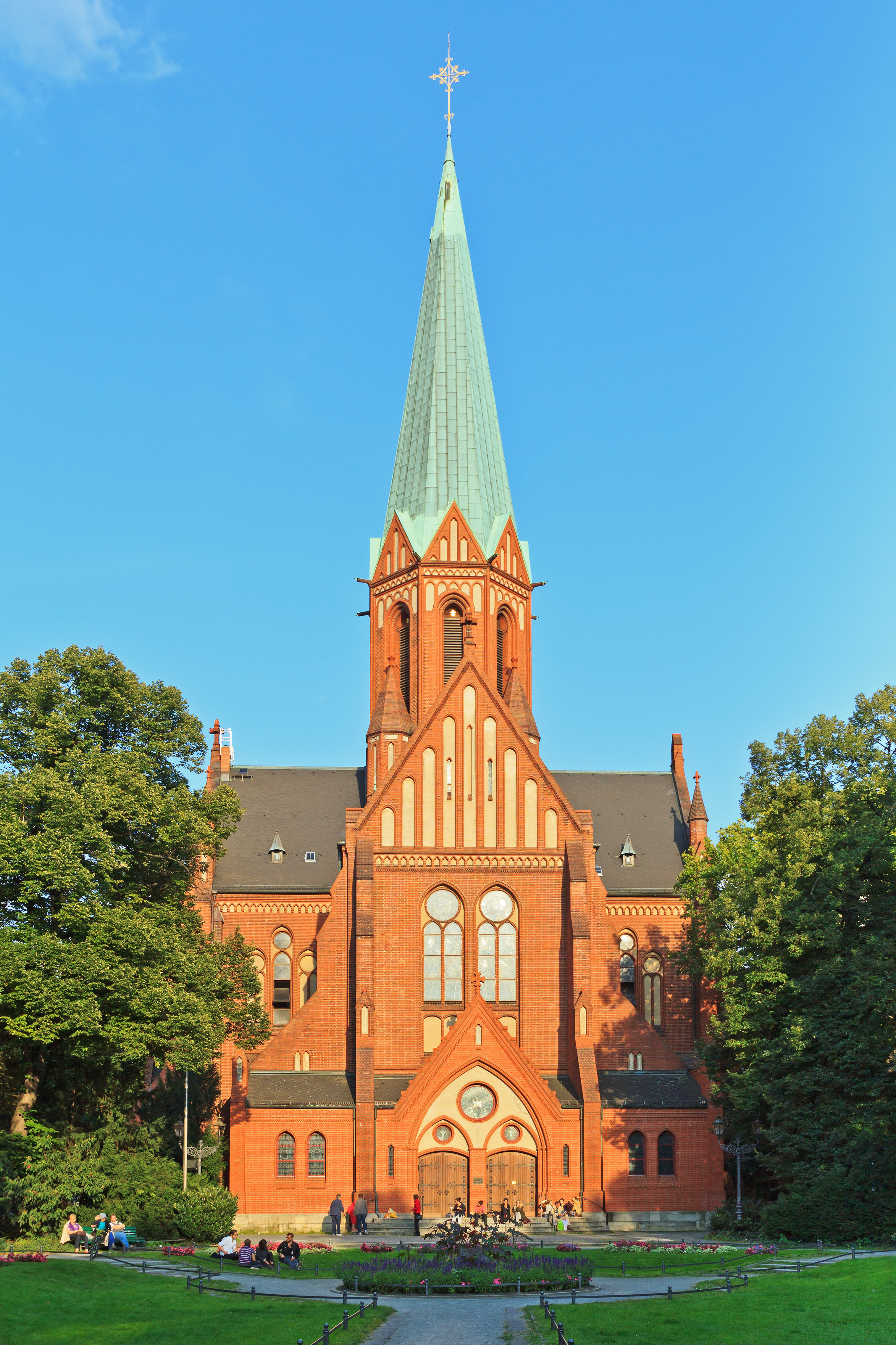 St. Louis IX of France Church in Berlin, Germany